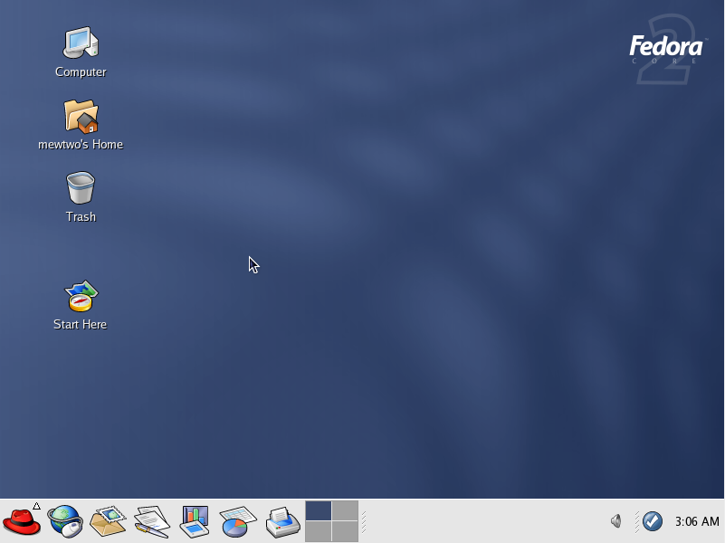 Screenshot of Fedora Core 2